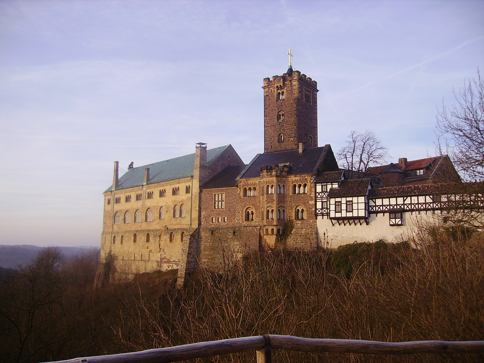 Wartburg in Eisenach